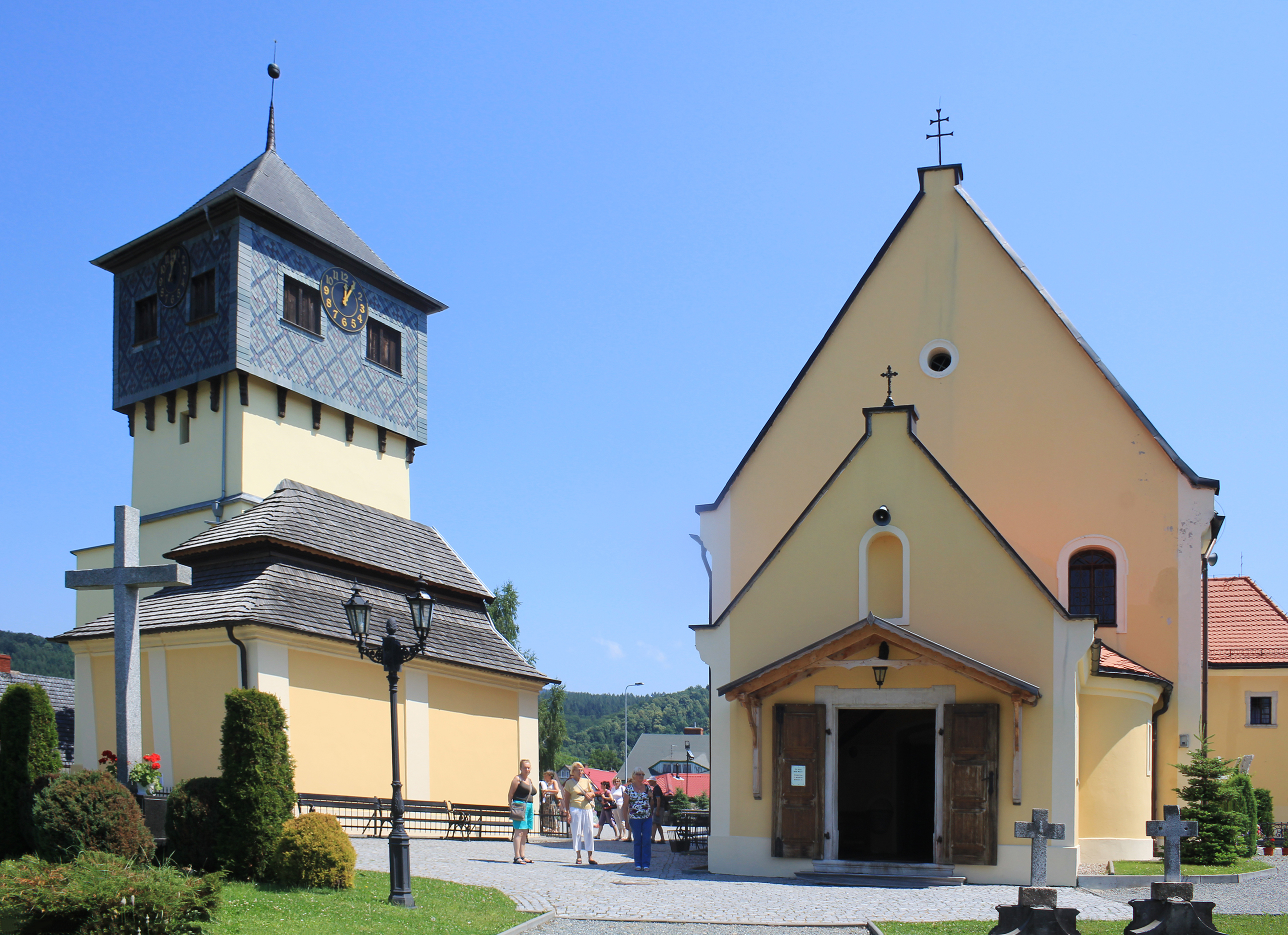 Church of Saint Bartholomew and Skull Chapel in Czermna, part ot spa town Kudowa-Zdrój, south Poland